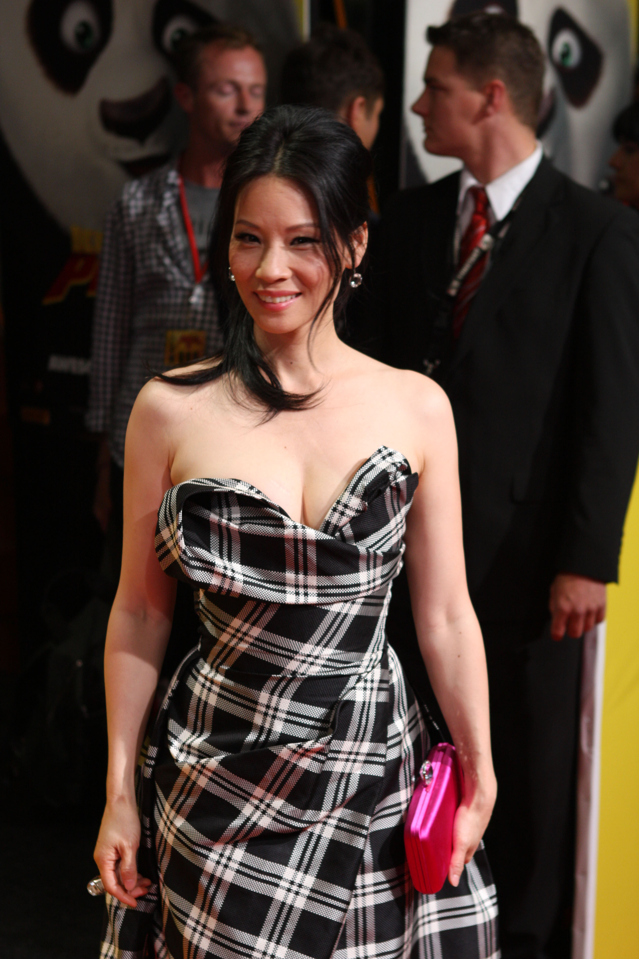 Lucy Liu Kung Fu Panda Premiere Sydney Eva Rinaldi Photography